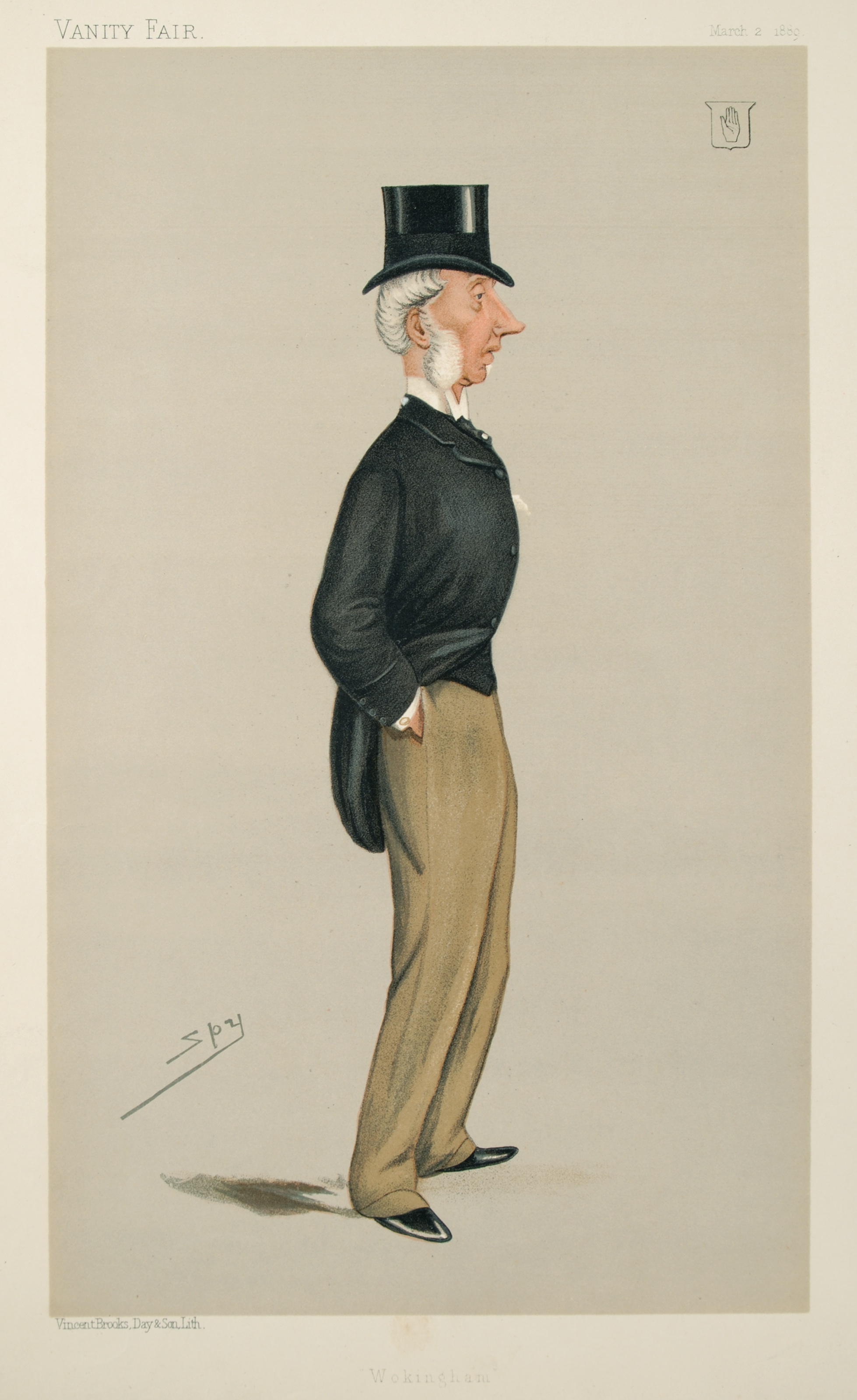 Statesmen No. 563: Caricature of George Russell MP. Caption read "Wokingham".